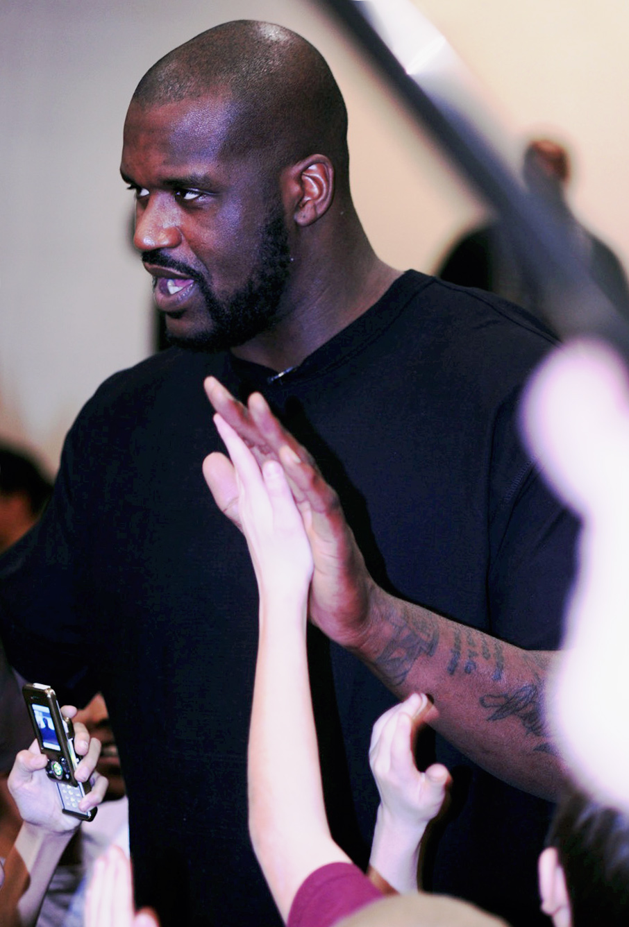 Shaquille O'Neal at the Buckley Air Force Base, Colorado.